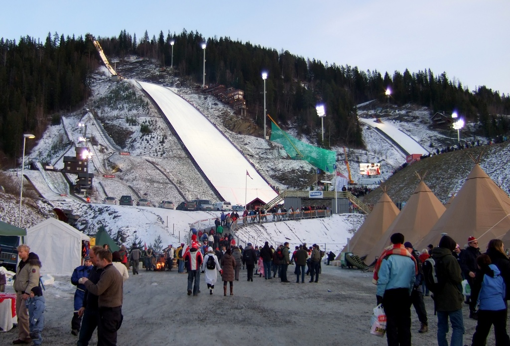 Vikersundbakken ski flying hill with smaller jumps, K90 ski jumping hill on the right. Photograph taken before the world cup competition on Saturday, January 13, 2007.